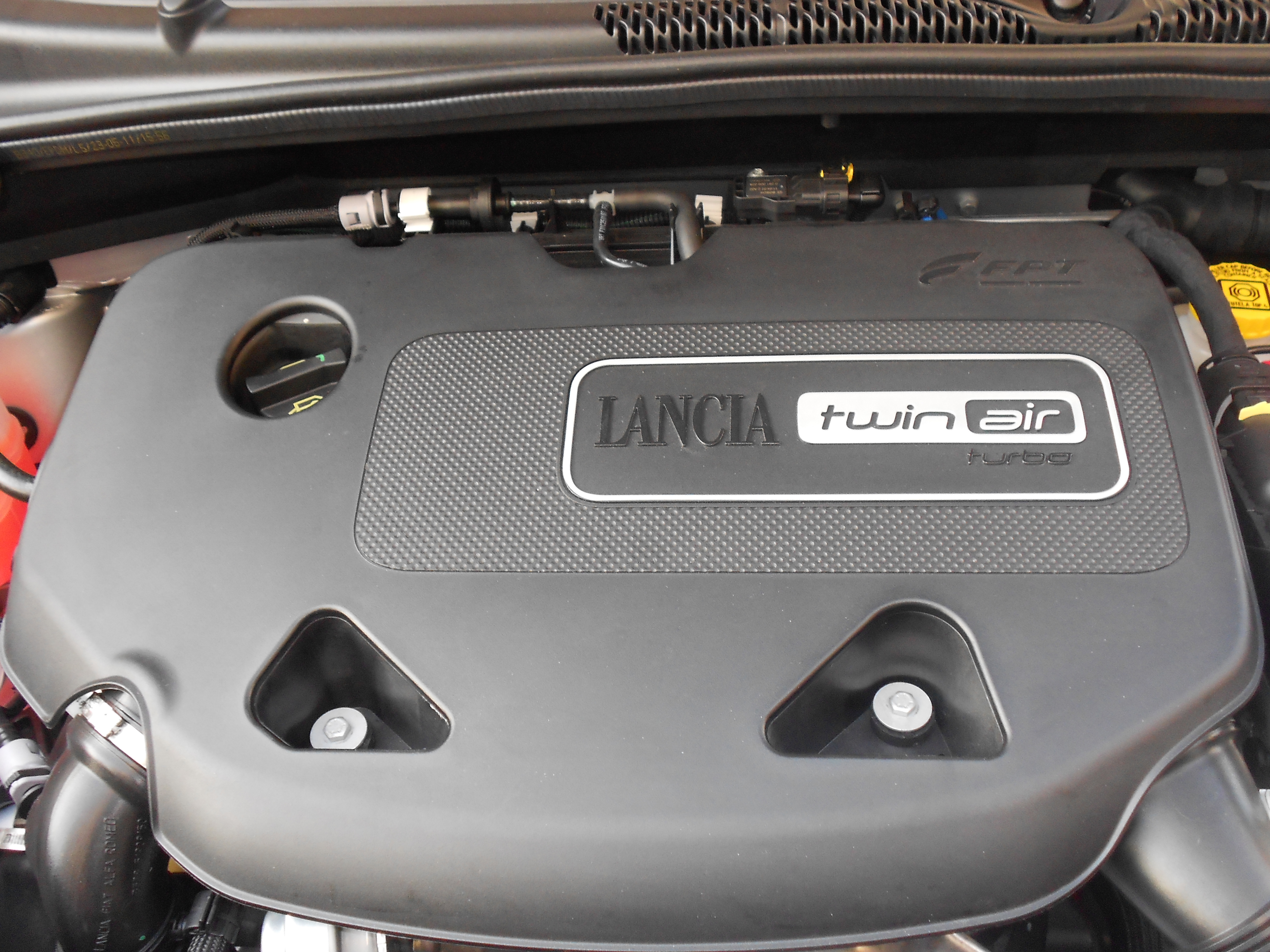 The new SGE engine (Small Gasoline Engine) commercial name: TwinAir (with MultiAir technology), installed in a New Lancia Ypsilon (2011) Motore: 0.9 TwinAir ( bicilindro SGE) Produttore: FPT (Fiat Powertrain Technology) Tipologia: Turbo Nome modello: Ypsilon Anno: 2011 Produttore: Lancia Gruppo: Fiat Group